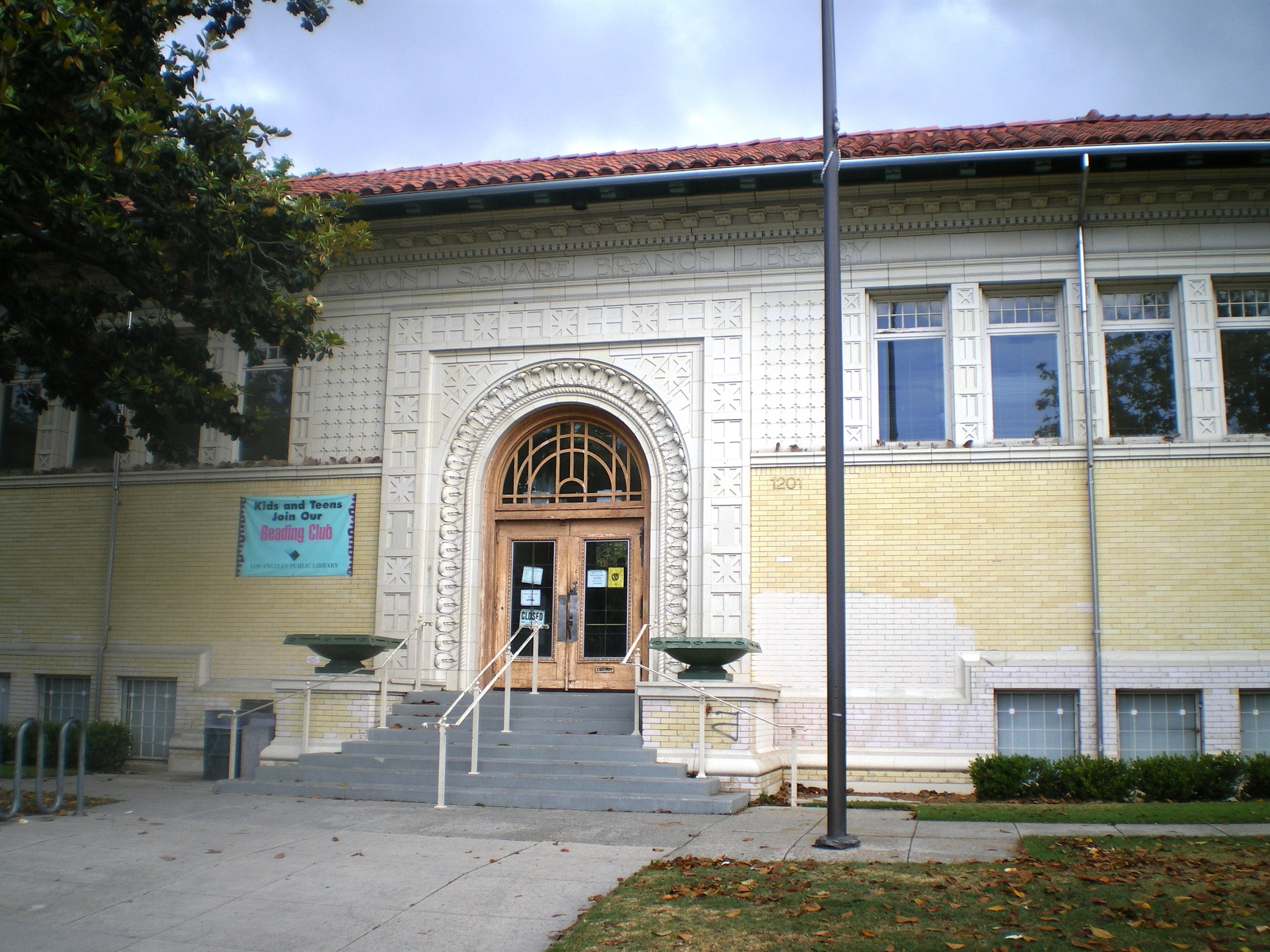 Vermont Square Branch Library, Los Angeles, California